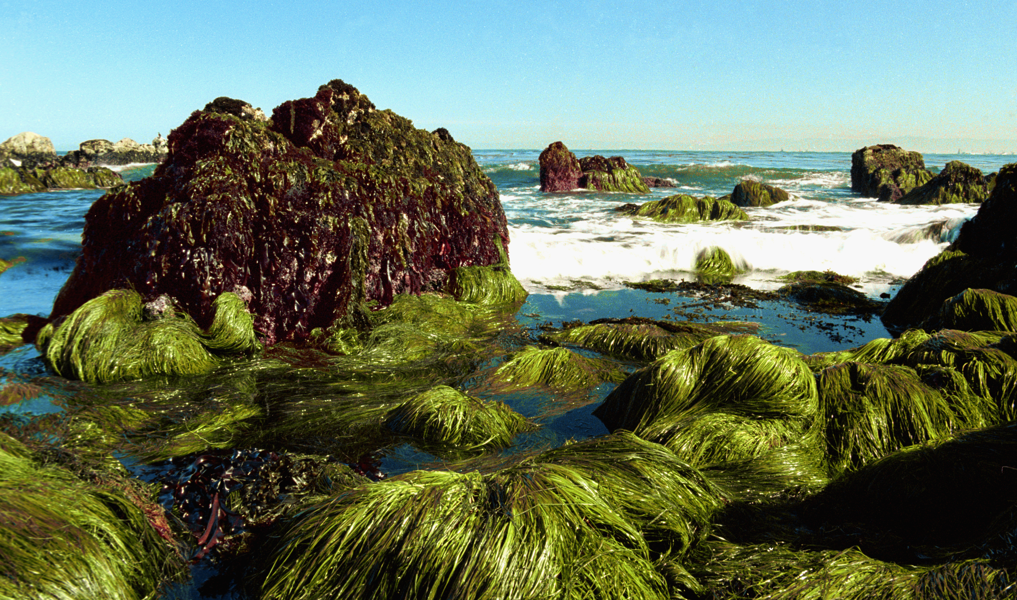 Pacific coast shoreline in Pacific Grove, California.